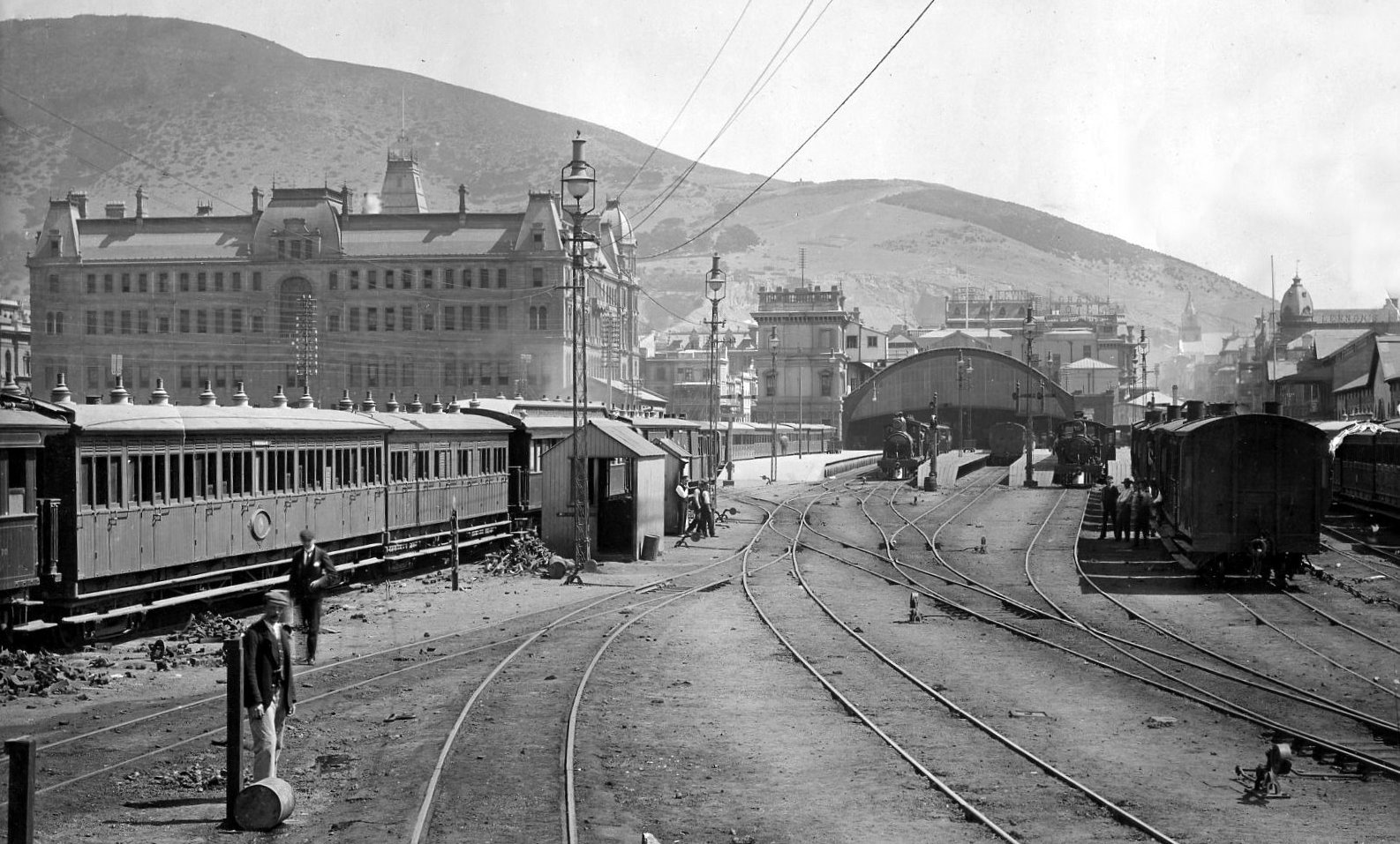 Cape Town Railway Station in 1896